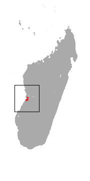 Madame Berthe's Mouse Lemur (Microcebus berthae) range